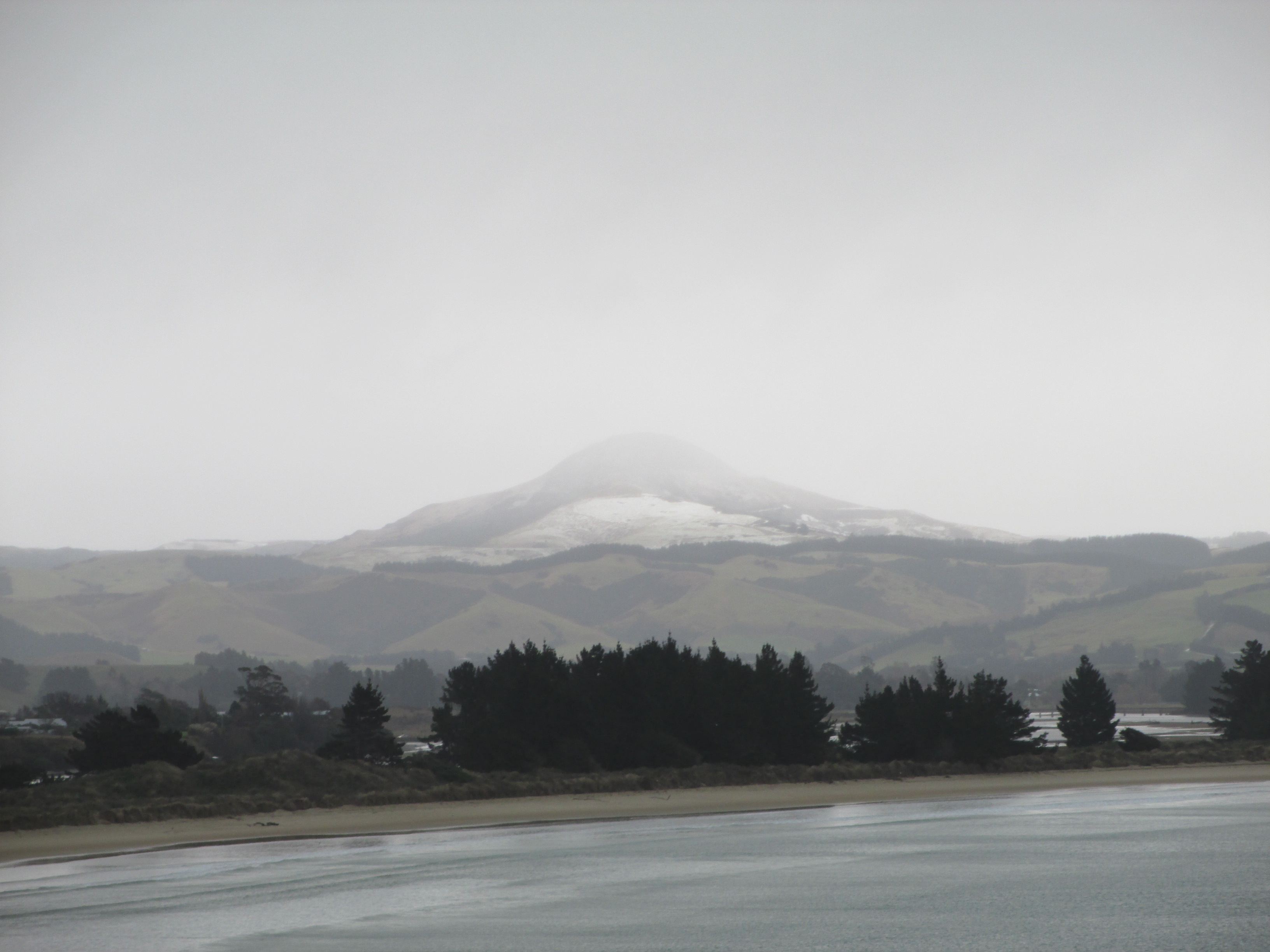 Photo of Mount Watkin/Hikaroroa with some snow on it.